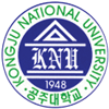 Kongju National University logo